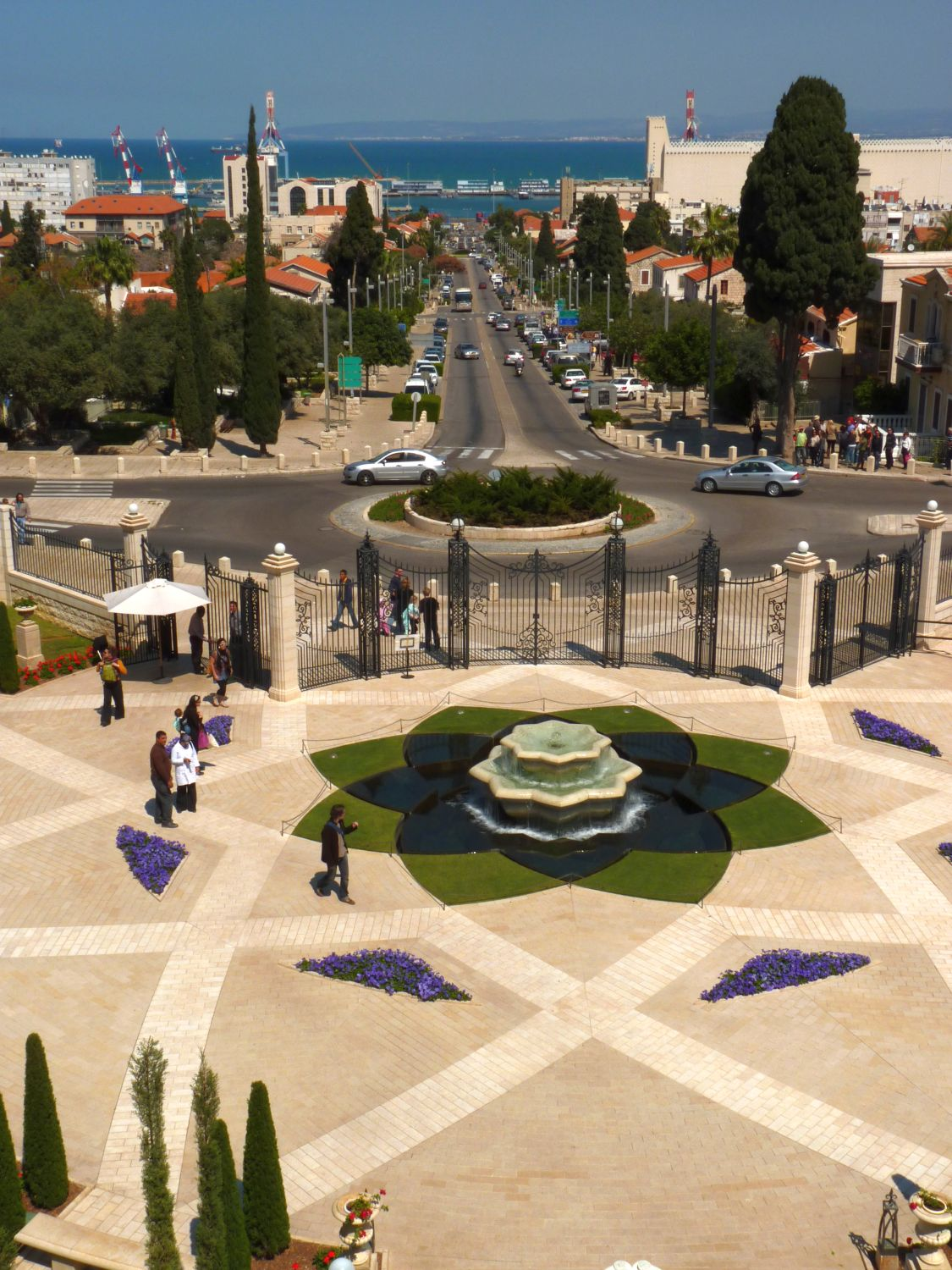 Sderot Ben Gurion and German Colony, Haifa, Israel